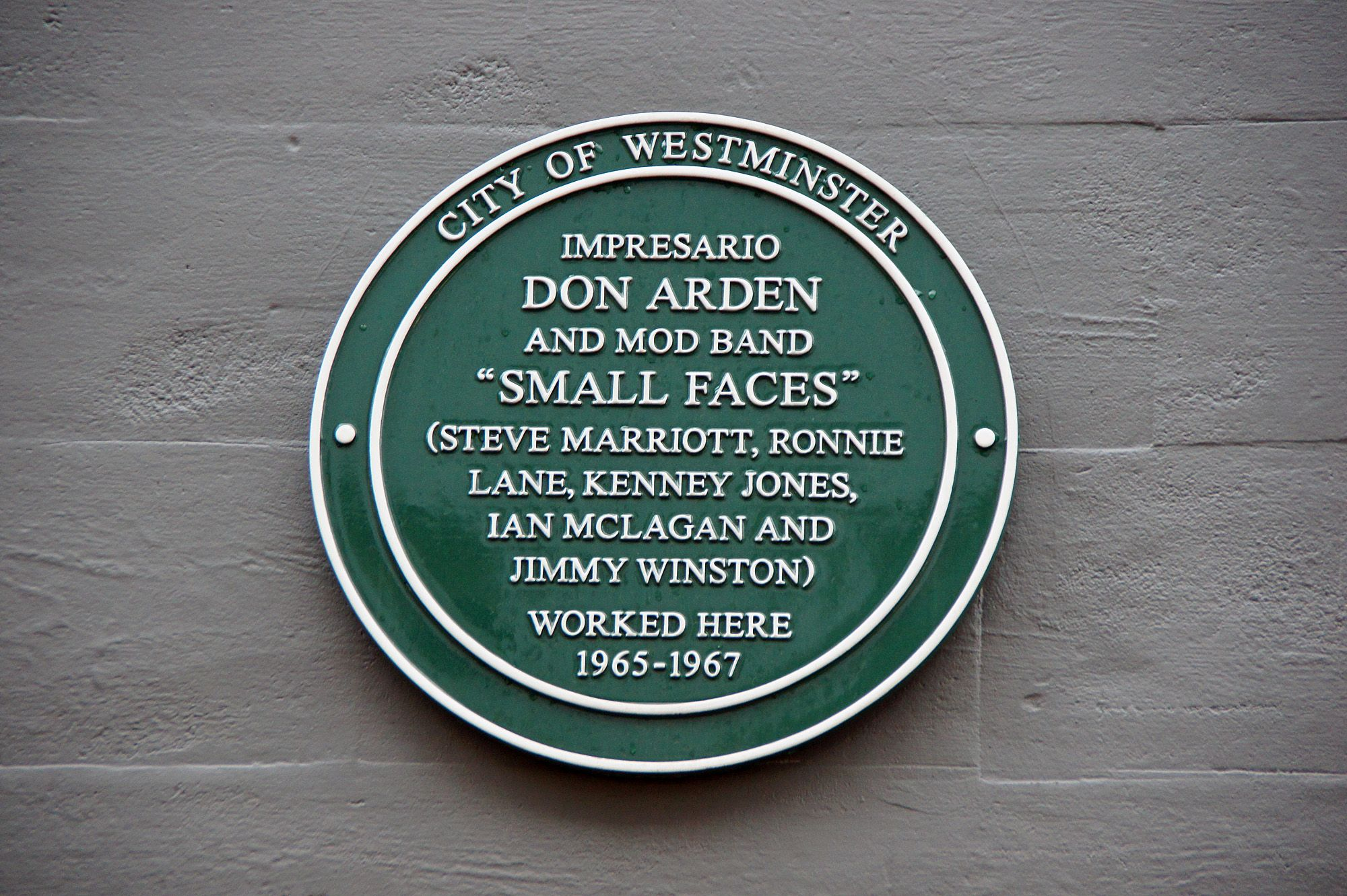 Plaque in honor of the Small Faces